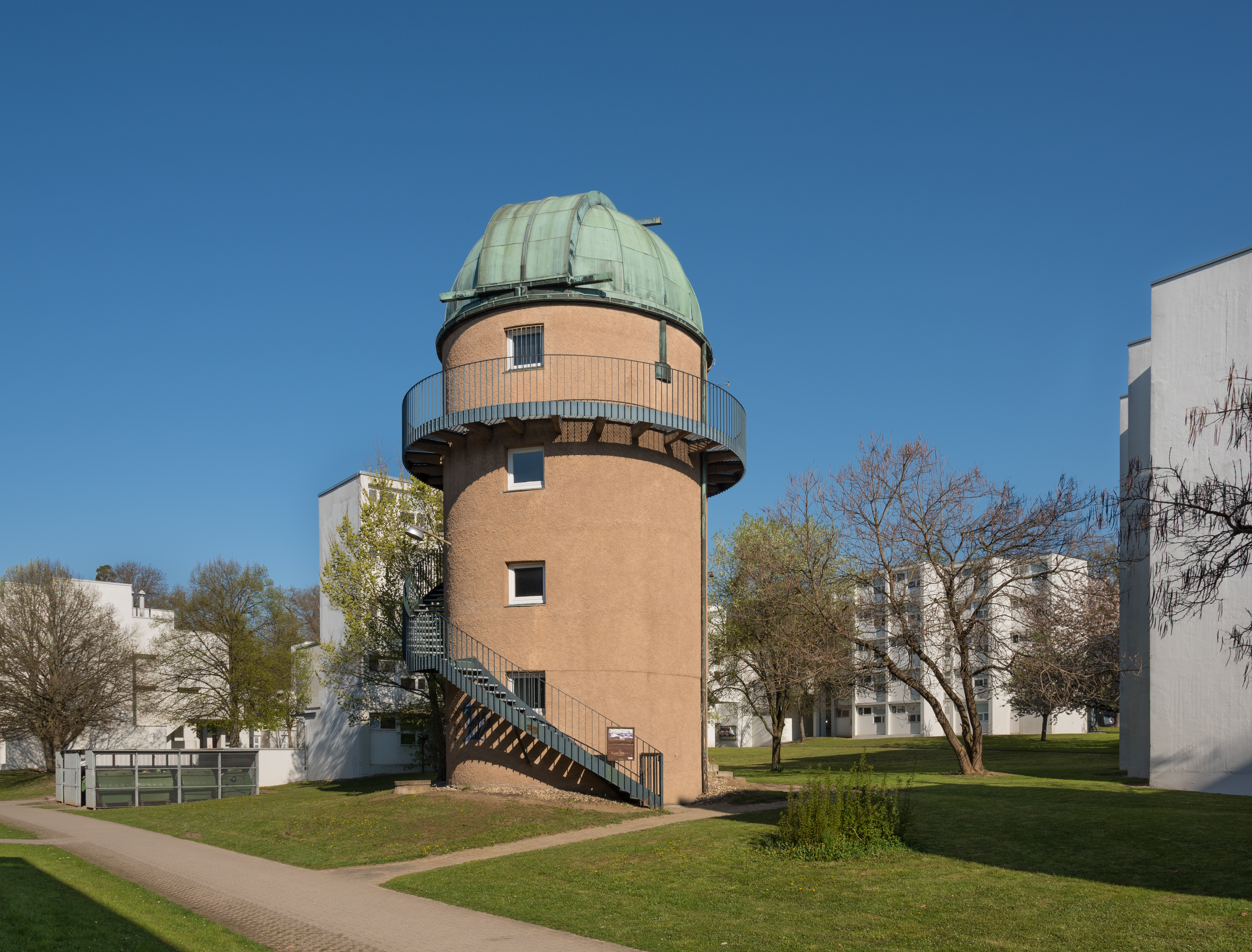 The Oberservatory Pfaffenwald on the campus of the University of Stuttgart, Vaihingen, Germany.